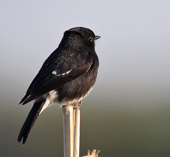 Pied Bushchat Saxicola caprata at/ near Hodal in Faridabad District of Haryana, India.